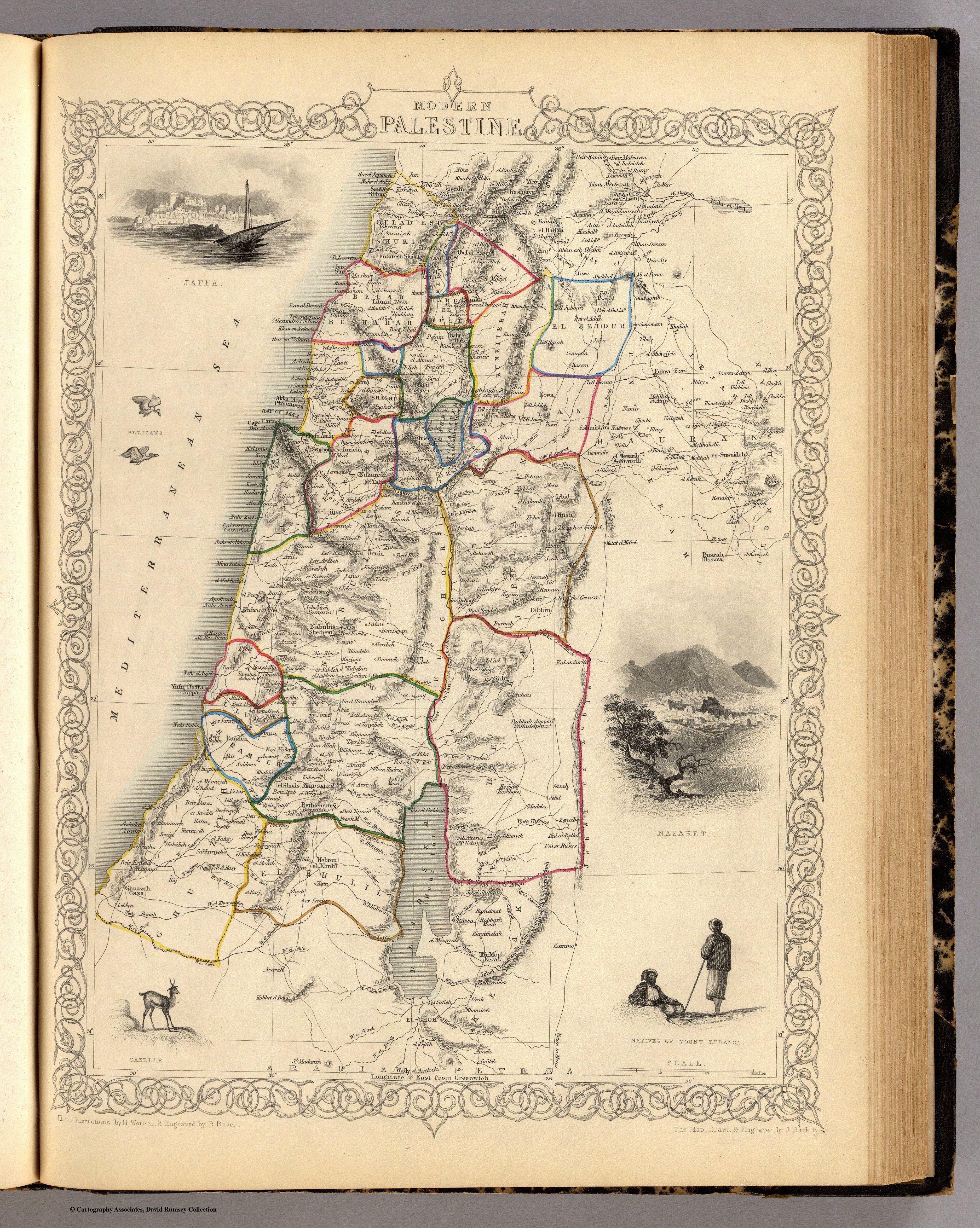 Map of Ottoman Palestine in 1851, from the The Illustrated Atlas, And Modern History Of The World Geographical, Political, Commercial & Statistical, Edited By R. Montgomery Martin